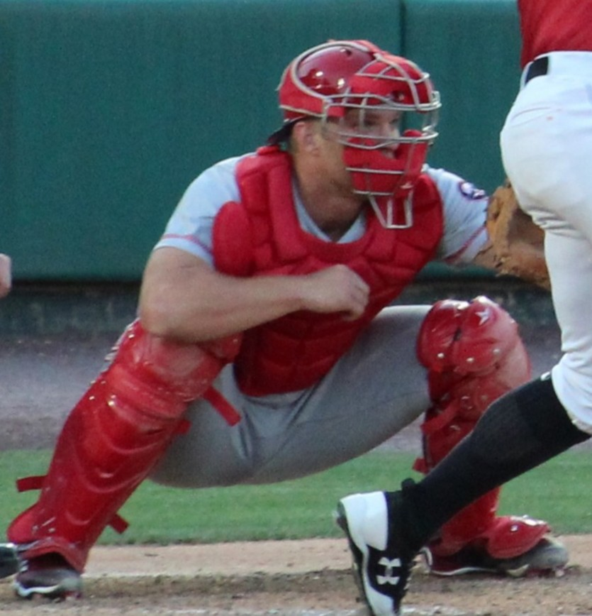 Rochester Red Wings vs. The Louisville Bats 23 Jon Kemmer - batter 32 Stuart Turner - catcher Frontier Field, Rochester